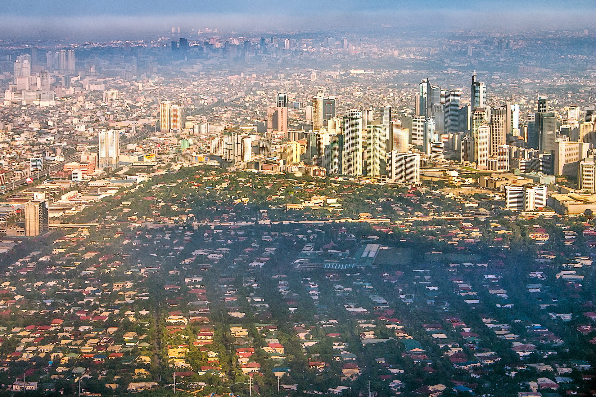 Aerial view to Manila city